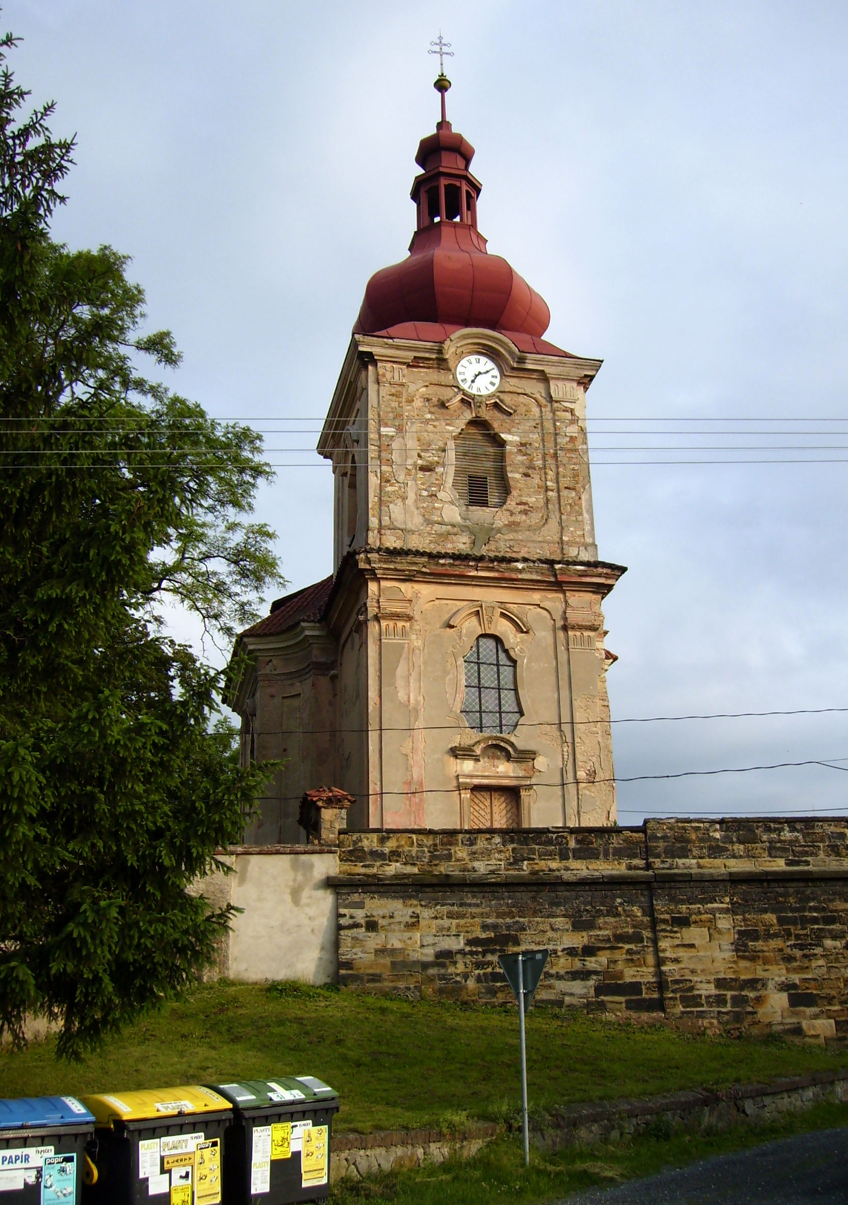 Church of the Nativity of the Virgin Mary in Poříčany, Kolín District, Czech Republic